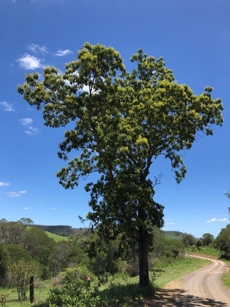 Flindersia xanthoxyla habit in the Lockyer Valley, south-east Queensland